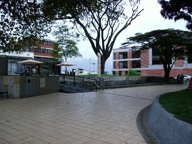 Sucre Park